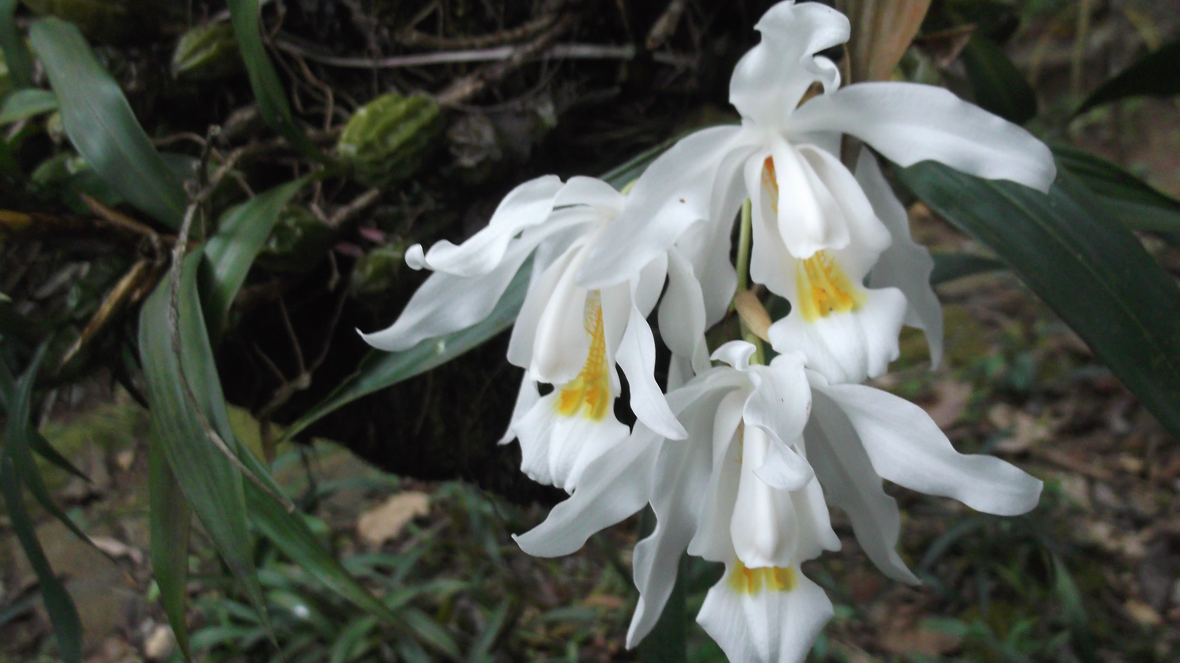 Pseudobulbs,epiphyte,flowers white,lip golden yellow,fringed.